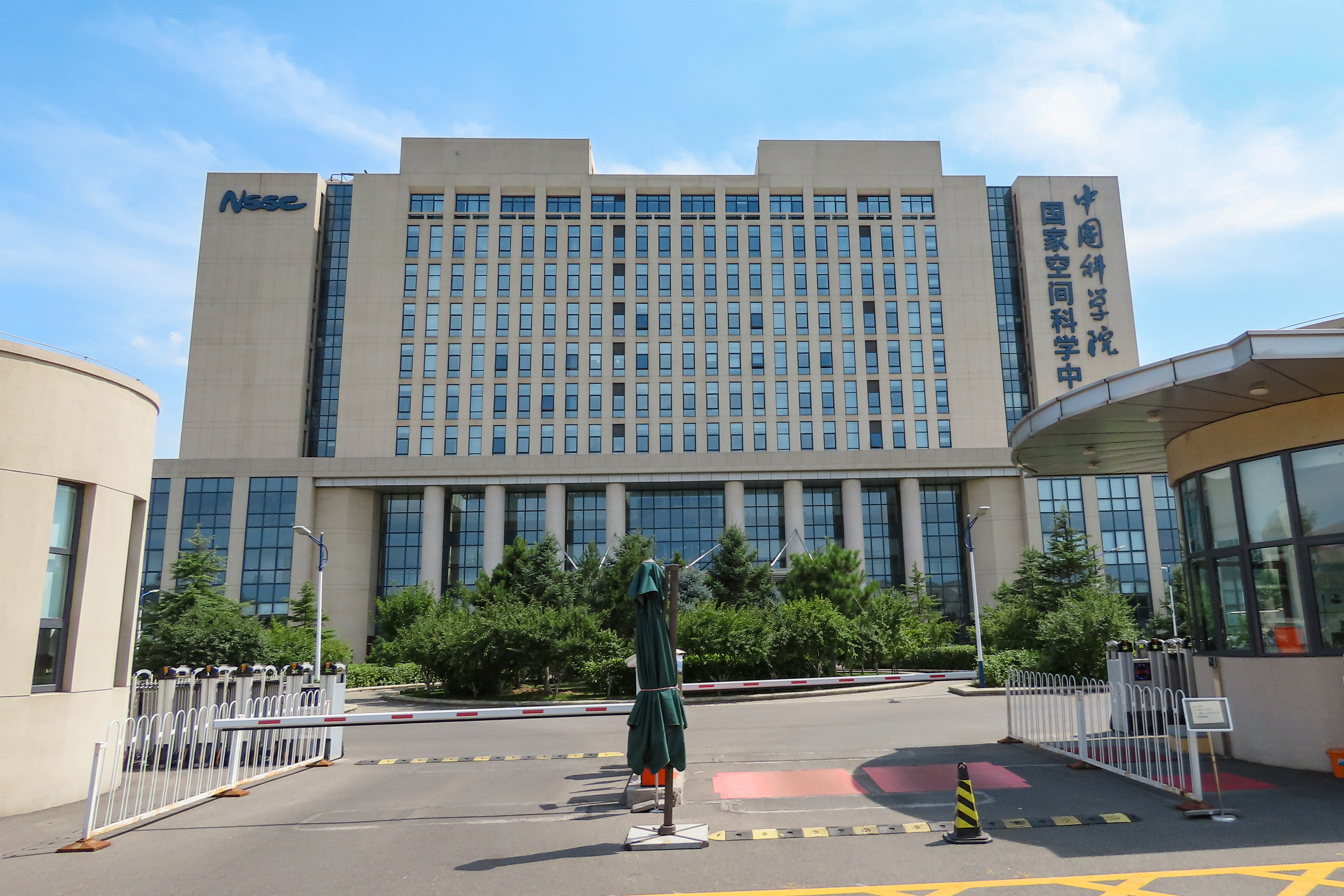 H59 passes here.